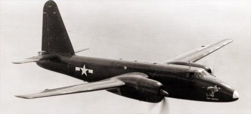 The third Lockheed P2V-1 Neptune (BuNo. 89082), named the "TRUCULENT TURTLE", was stripped down, fitted with auxiliary fuel tanks plus an extended nose, and set an unrefueled long distance flight record 1946. The aircraft took off from Perth (Australia) on 29 Sep 1946 and landed in Columbus (Ohio, USA) on 1 Oct 1946 . It flew with a crew of four U.S. Navy officers and a young kangaroo, covering 18,089.3 kilometers (11,235.6 miles) in 55 hours 18 minutes.